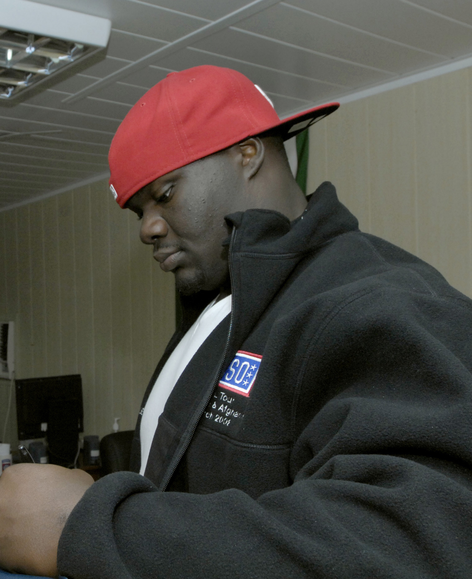 Tommie Harris of the Chicago Bears signs an autograph for Senior Master Sgt. Marc Pumala, 376th Expeditionary Security Forces Squadron, Manas AB, Kyrgyzstan March 4. San Diego Charger Luis Castillo, Carolina Panther Mike Rucker and sportswriter Peter King took part in the United Service Organization National Football League tour visiting U.S. service members supporting the on-going operations in Afghanistan.